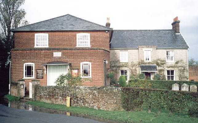 Picture of Wattisham Chapel